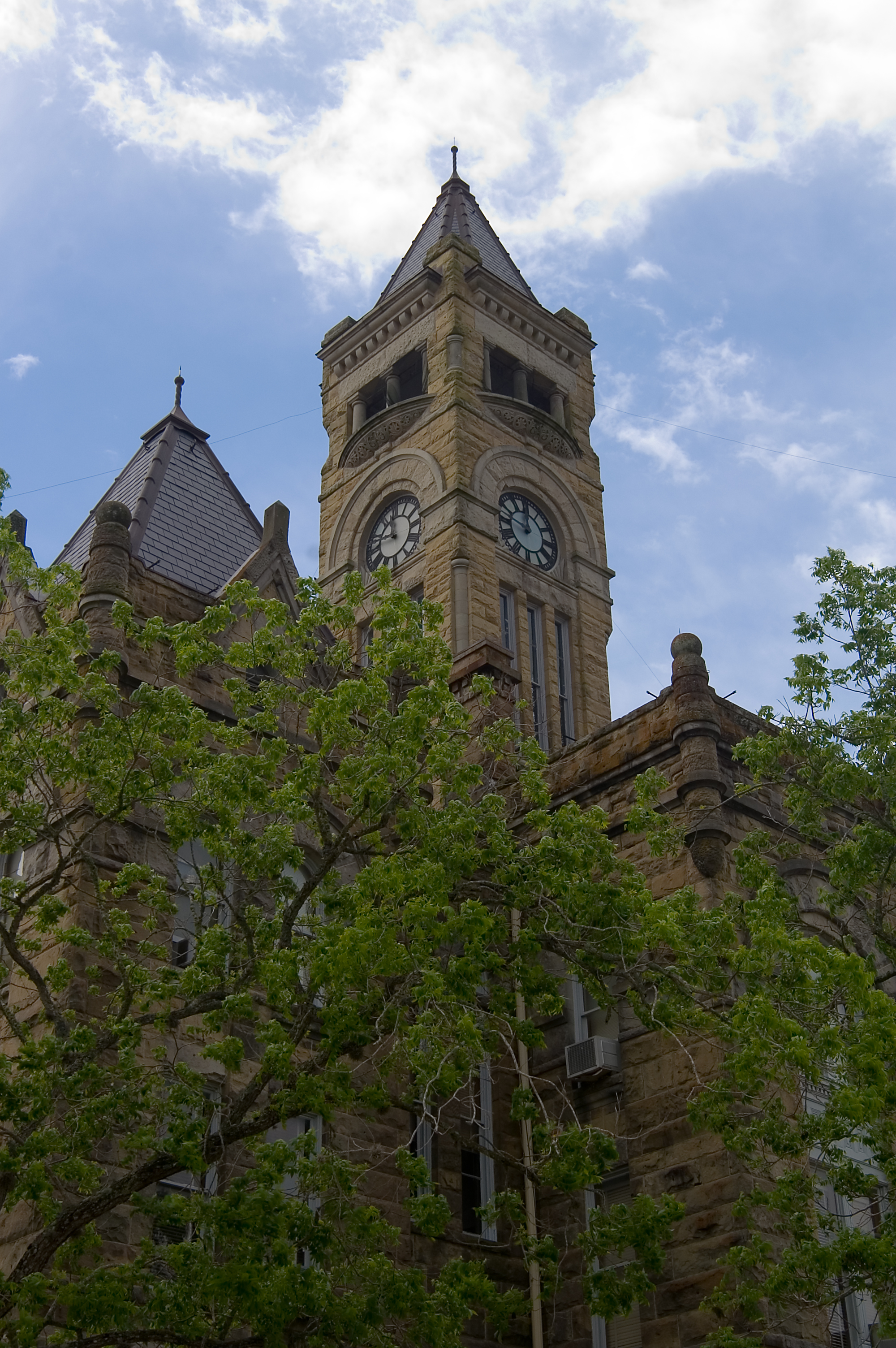 Lavaca County Courthouse - Hallettsville, Texas in April 2008. Added to the National Register of Historic Places on March 11, 1971. Coordinates 29.4450 -96.9427